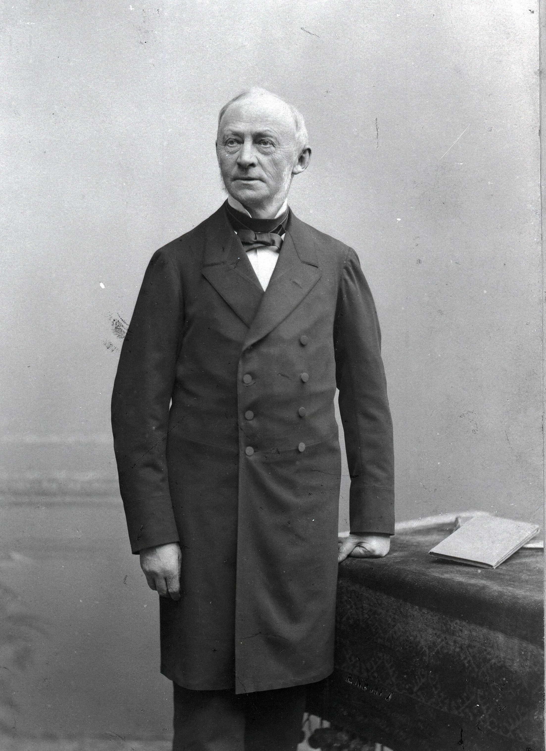 Carl Frederik Tietgen (1829-1901), Danish businessman and industrialist